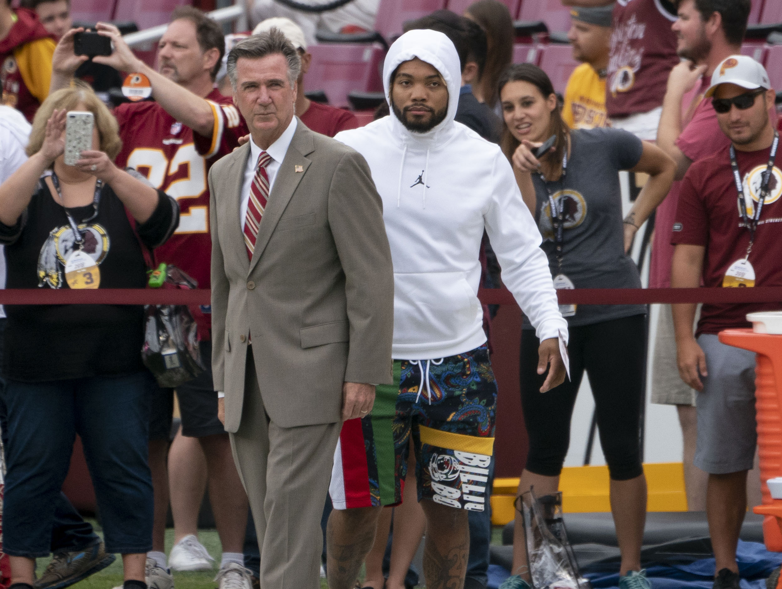 Colts at Redskins 09/16/18